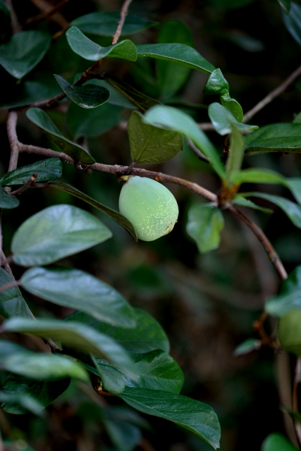 Ficus pumila L. var. awkeotsang (Makino) Corner B= Vincent Cheng's home C= 2007/09/20 D= Vincent Cheng